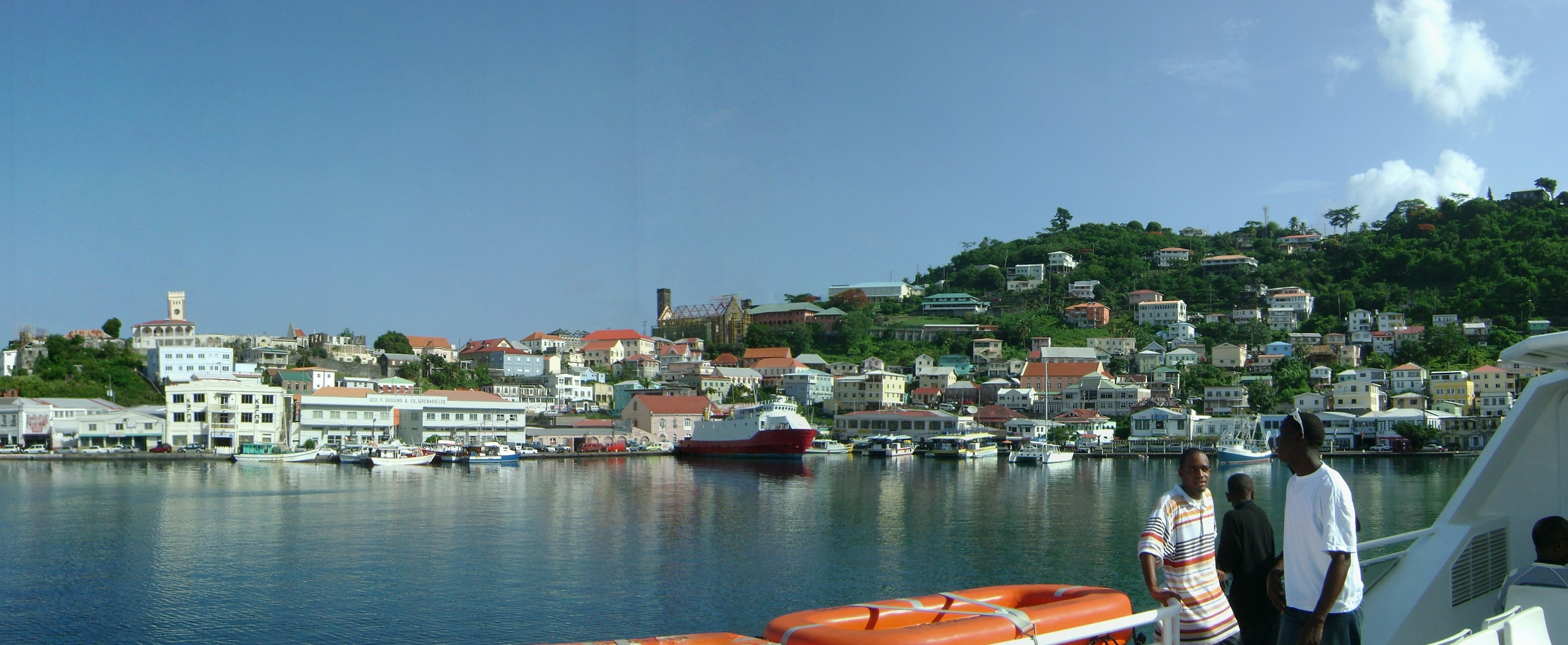 View of St. George's Bay in Grenada.